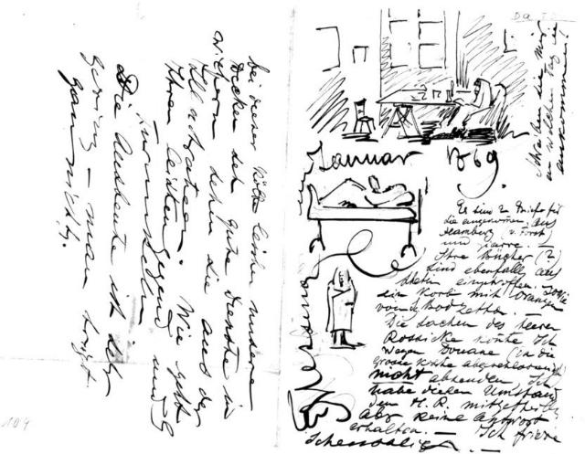 Miklouho-Maclay letter (Messina, 1869)